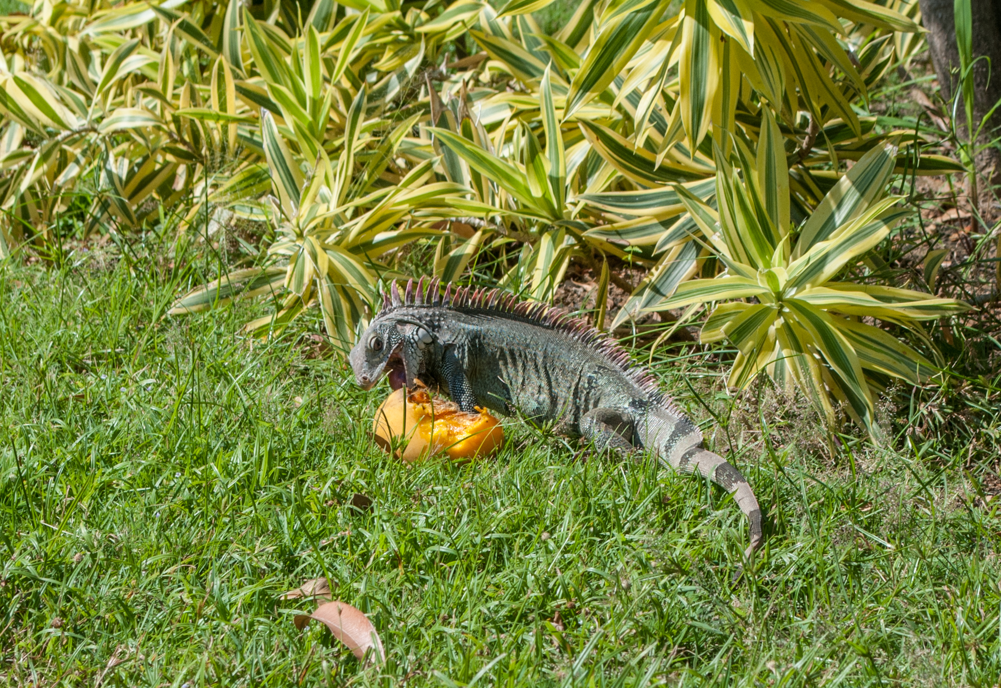 Iguana iguana eating Mangifera indica